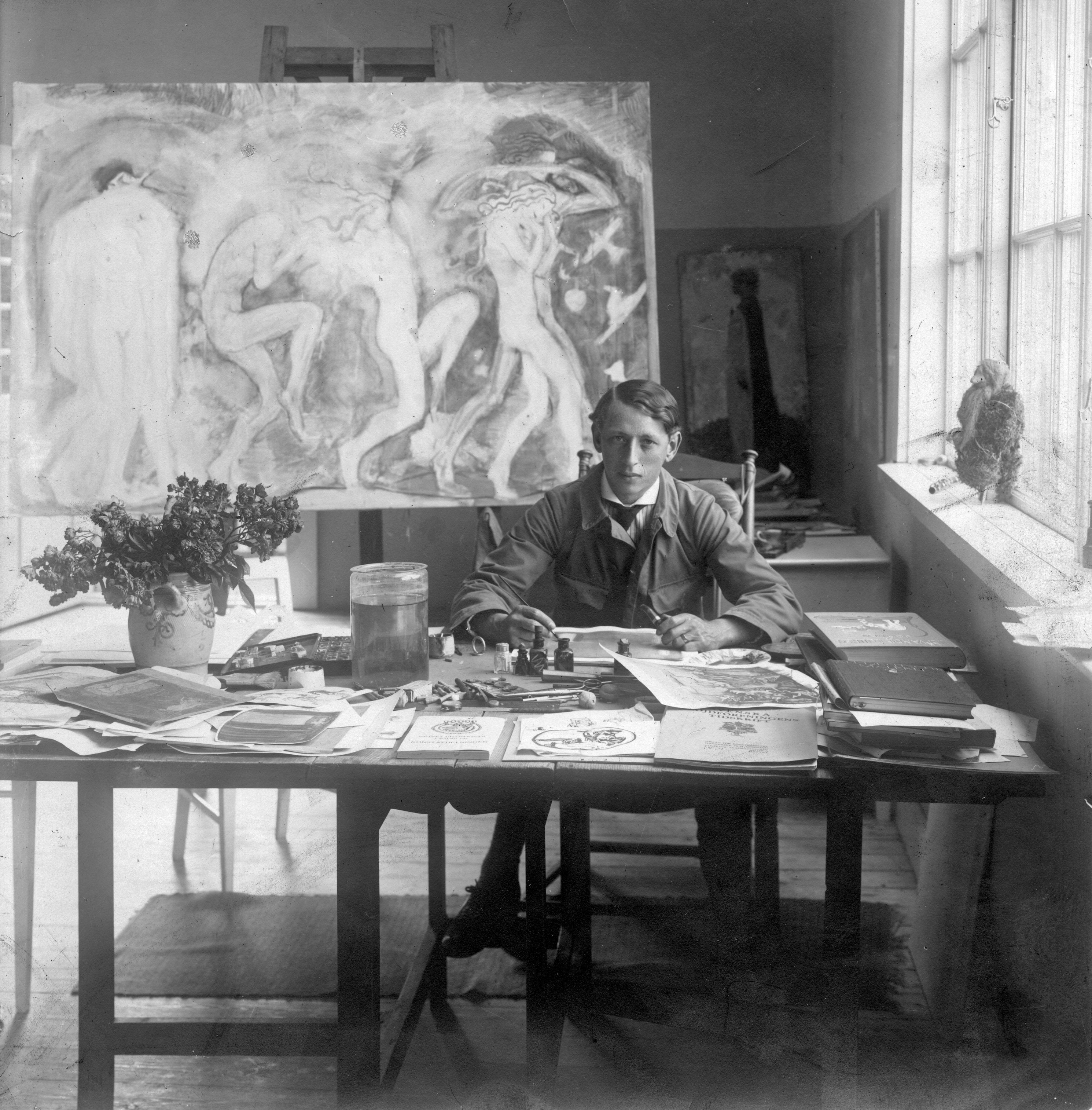 Cropped version with more contrasts of File:John Bauer at work.jpg, showing Swedish artist and illustrator John Bauer (1882–1918) at work, photographed by Calla Sundbeck (1867–1930).